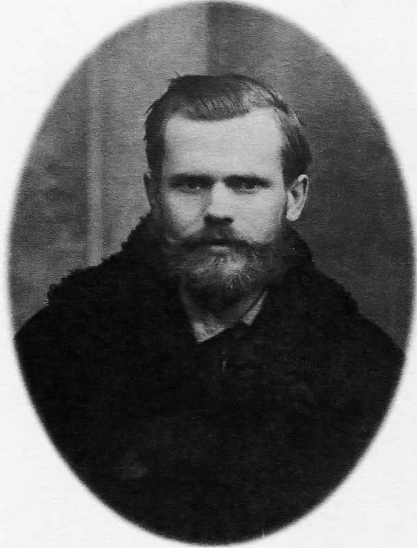 Jazep Drazdovich, Belarusian painter